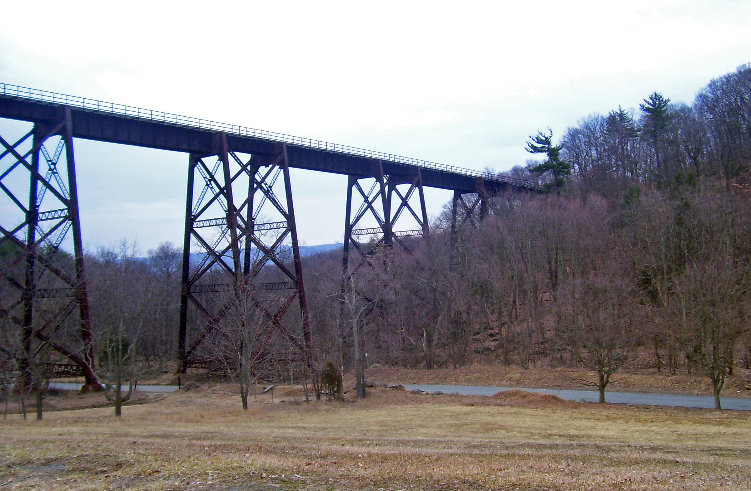 View from hilltop near Moodna Viaduct in Town of Cornwall, NY, USA, where George Clooney sees his car explode in the 2007 film Michael Clayton. Picture taken almost two years after film produced, under similar conditions.